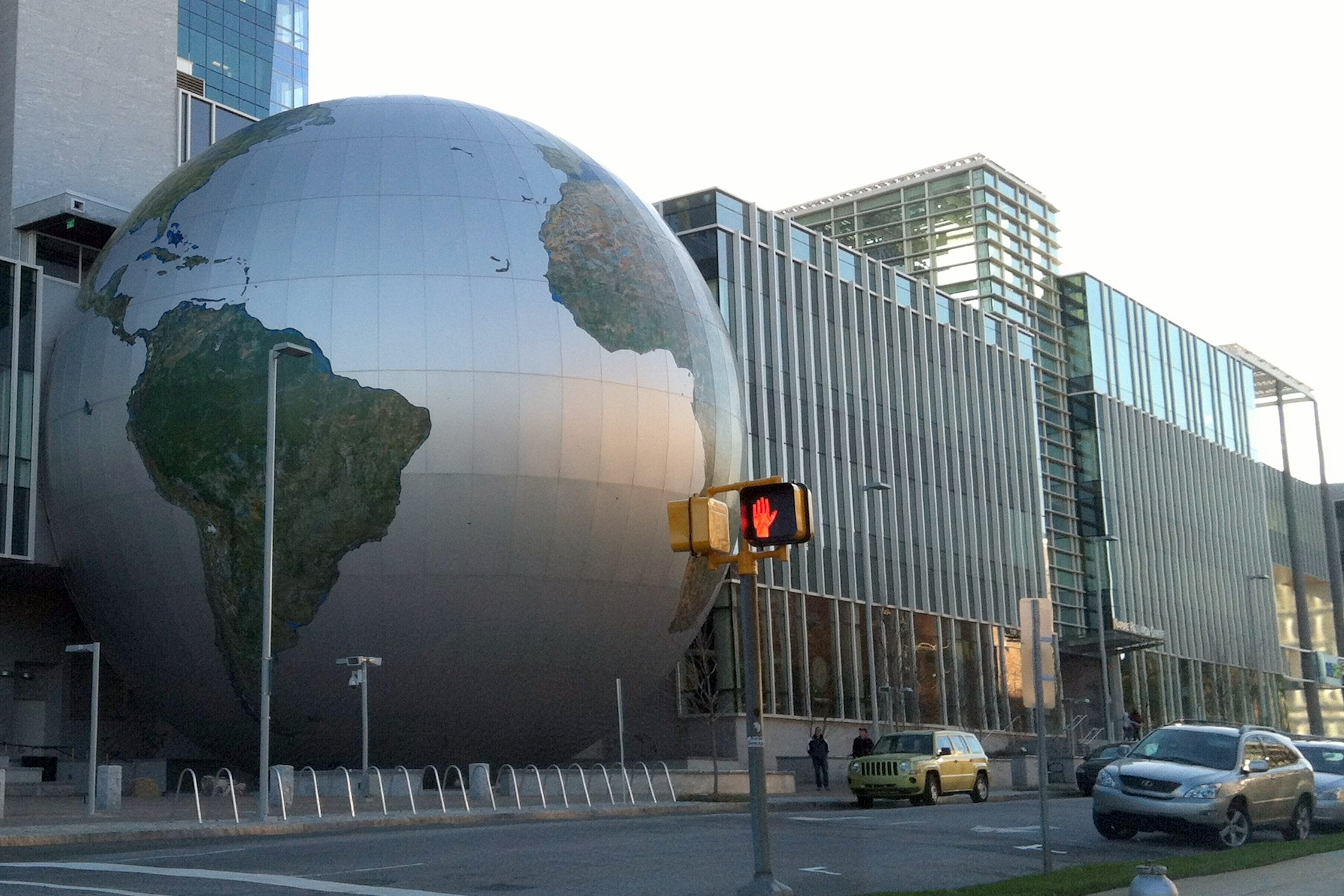 North Carolina Museum of Natural Sciences Nature Research Center with the iconic Daily Planet globe.